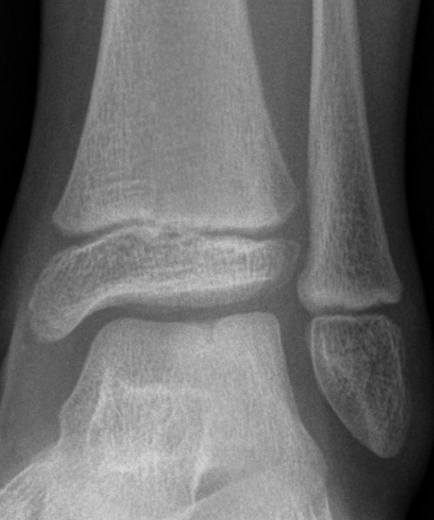 Talus bipartita (cleft talus) in a 8 yrs old girl, X-ray a.p. projection